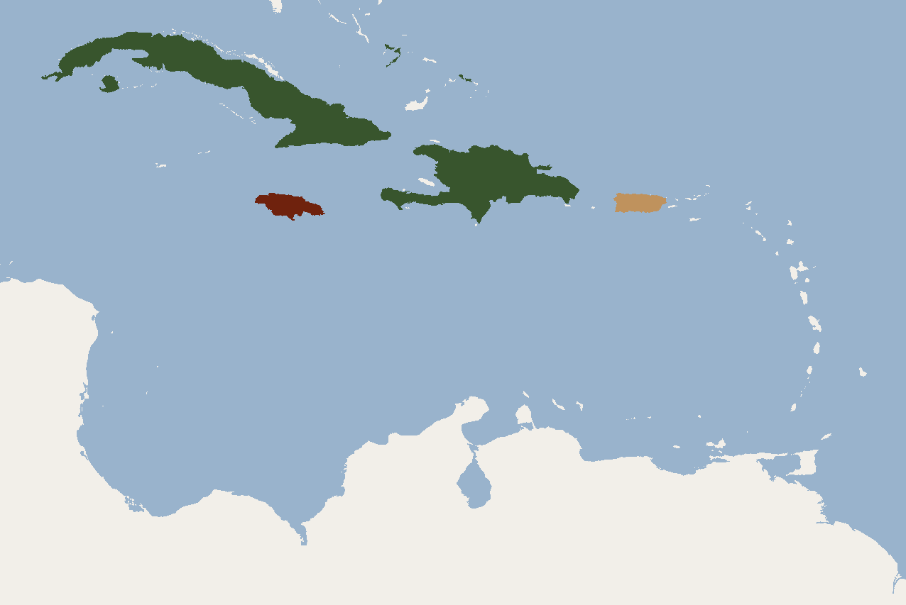 Geographical distridution of Monophyllus redmani according to Museum specimens M.r.redmani M.r.clinedaphus M.r.portoricensis